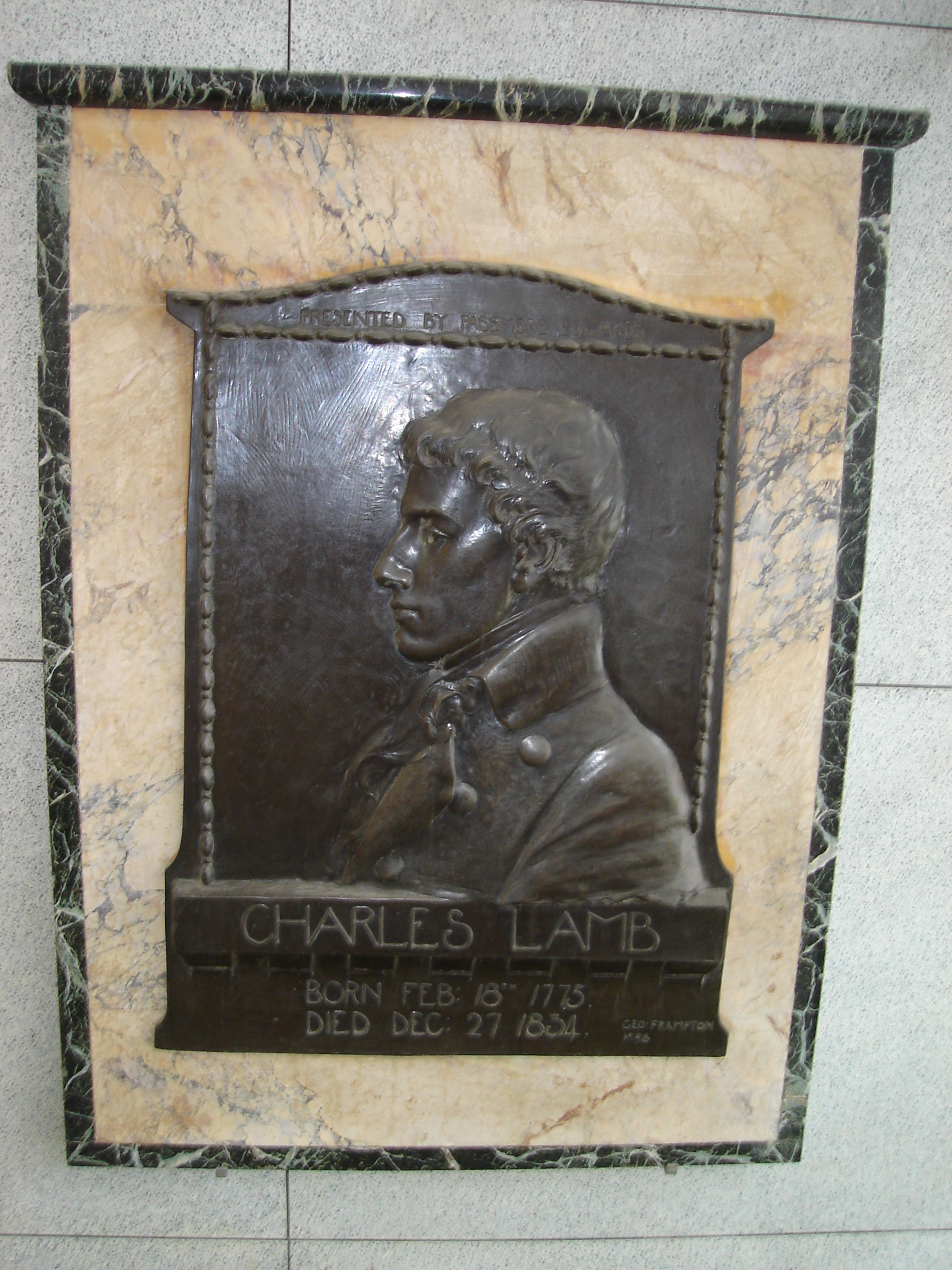 Picture of a portait plaque depicting Charles Lamb sculpted by George Frampton which is on public display at Community House, 313, Fore Street, Edmonton